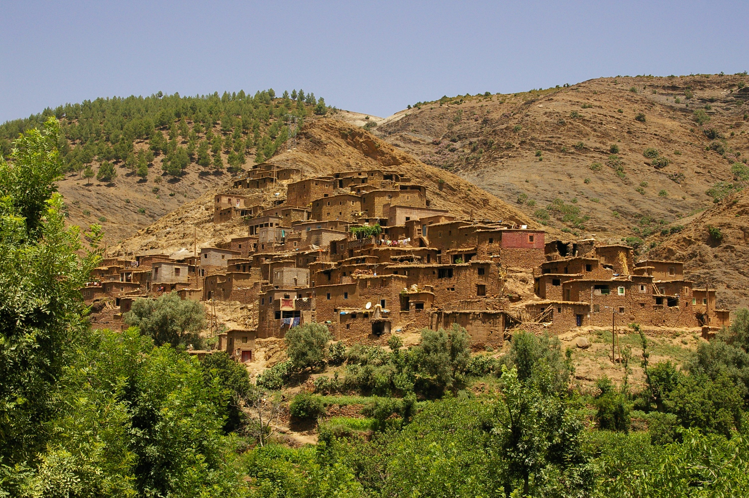 Berber village in Ourika valley (30 km from Marrakech, High Atlas, Morocco).